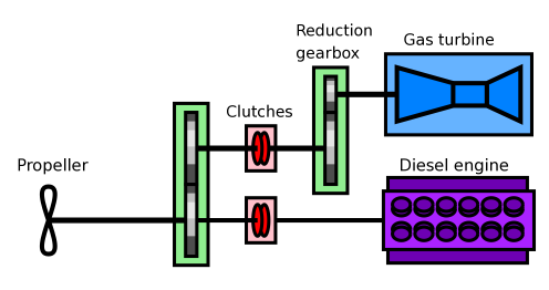 Diagram of a CODOG propulsion system for one shaft (there are usually two). Not that in reality the clutches and gearboxes would be arranged differently, it's just to show the principle.